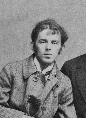 Mandelstam 1914-b